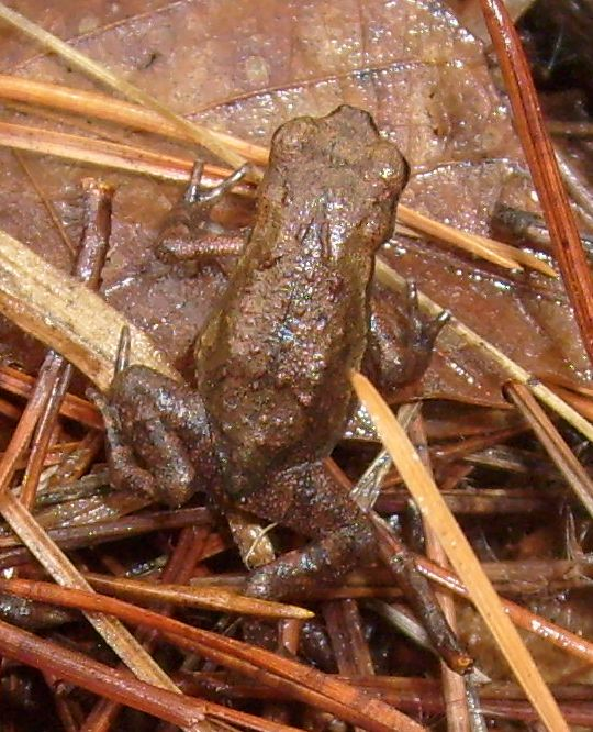 Juvenile Rana dybowskii on leaves in pine-oak hillside forest above Sungjin-ri, Samnangjin-eup, Miryang-si, Gyeongsangnam-do, Republic of Korea.